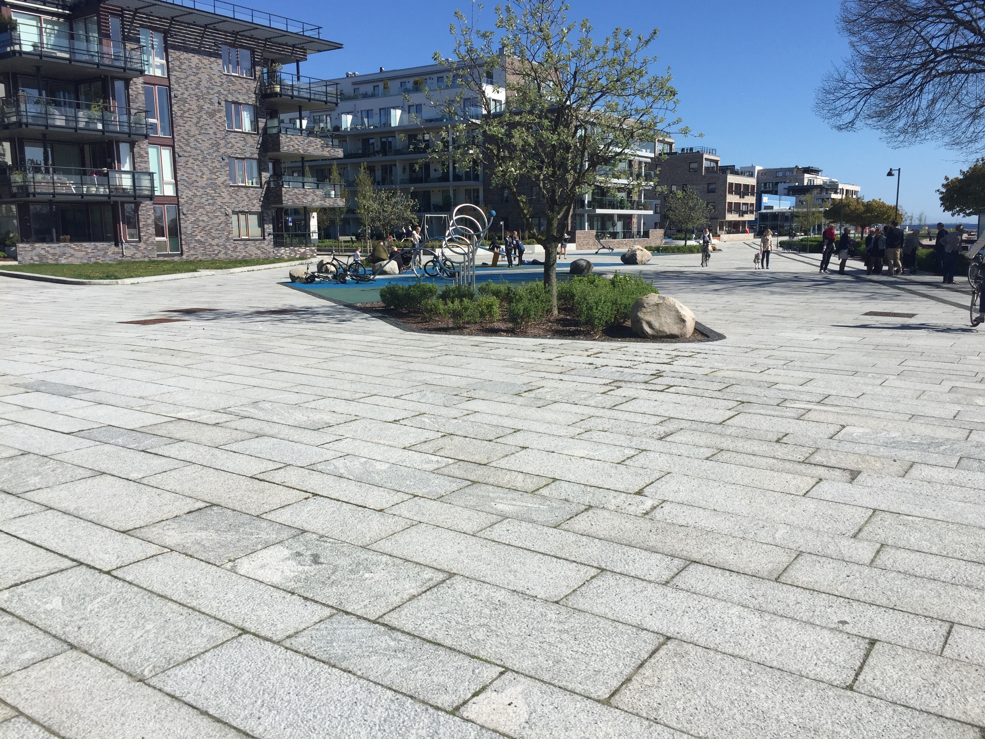 Tangen, Kristiansand